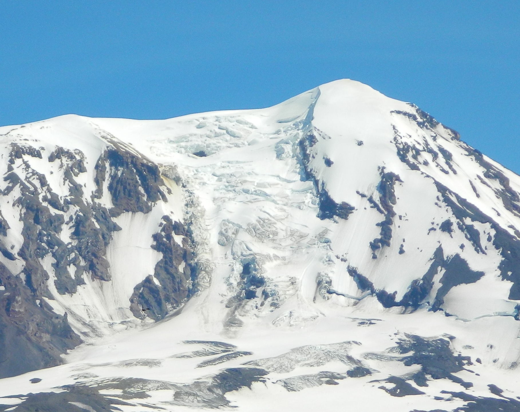 Mount Adams, Gifford Pinchot National Forest, Washington